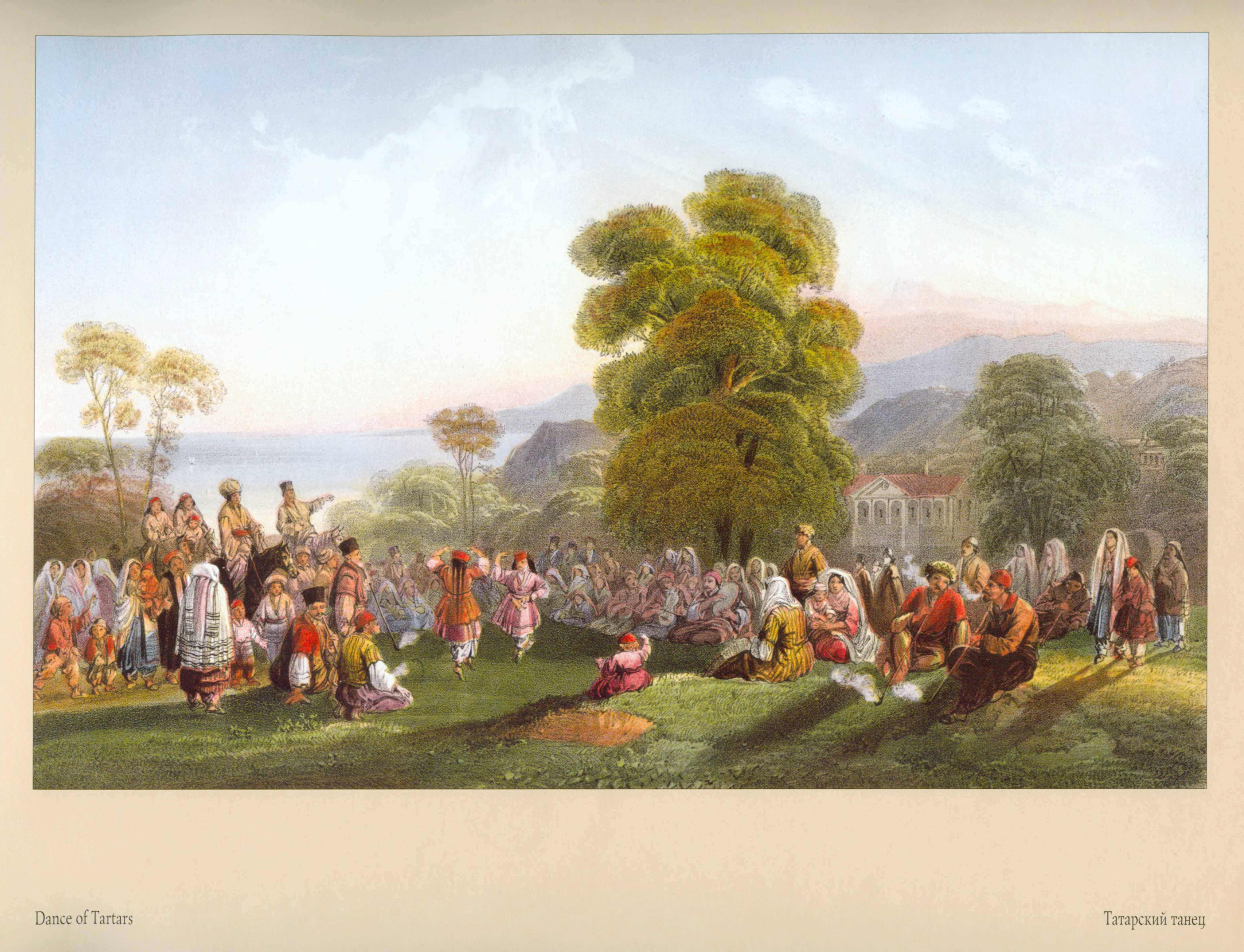 Carlo Bossoli: Dance of Tartars